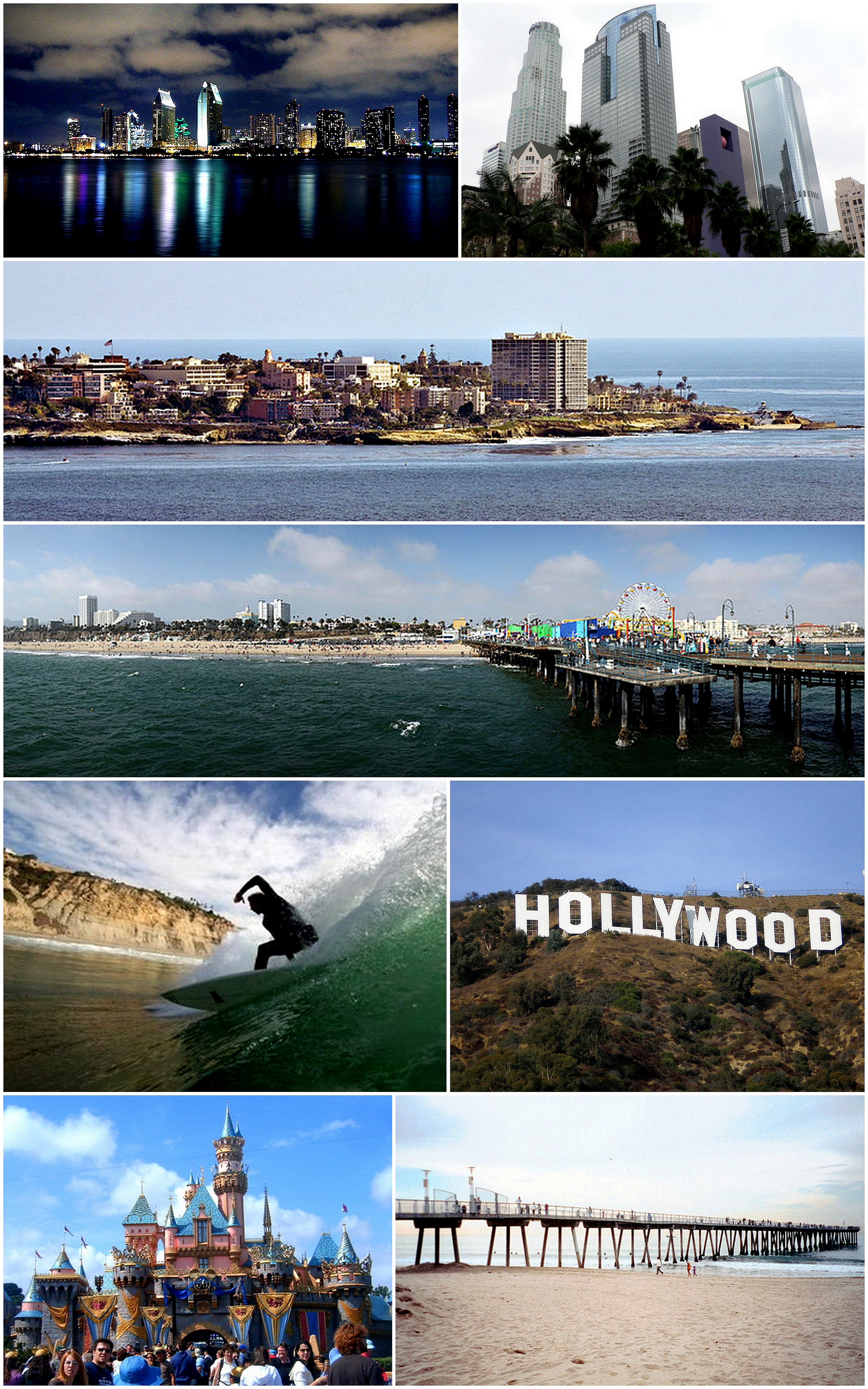 Montage of Southern California images on WikiMedia Commons